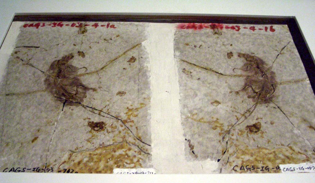 Sinodelphys szalayi fossil displayed in Hong Kong Science Museum